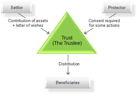 Organisational chart and structure of a trust.